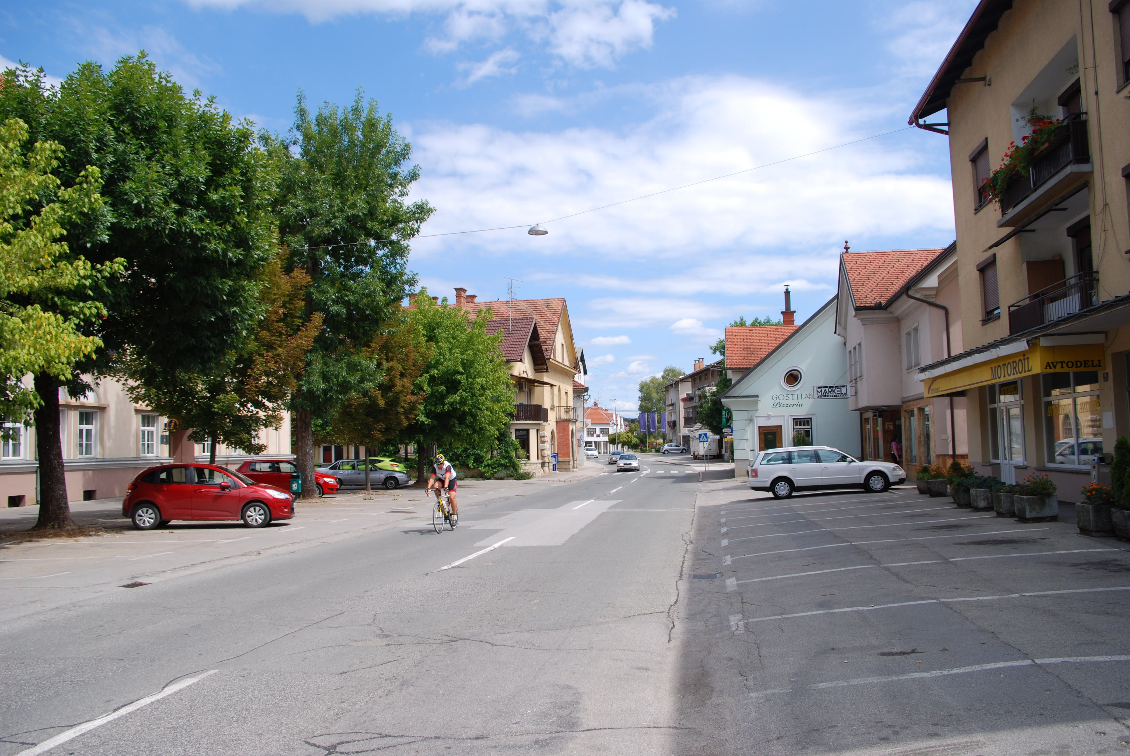 Gubec Street, the main street in Trebnje.